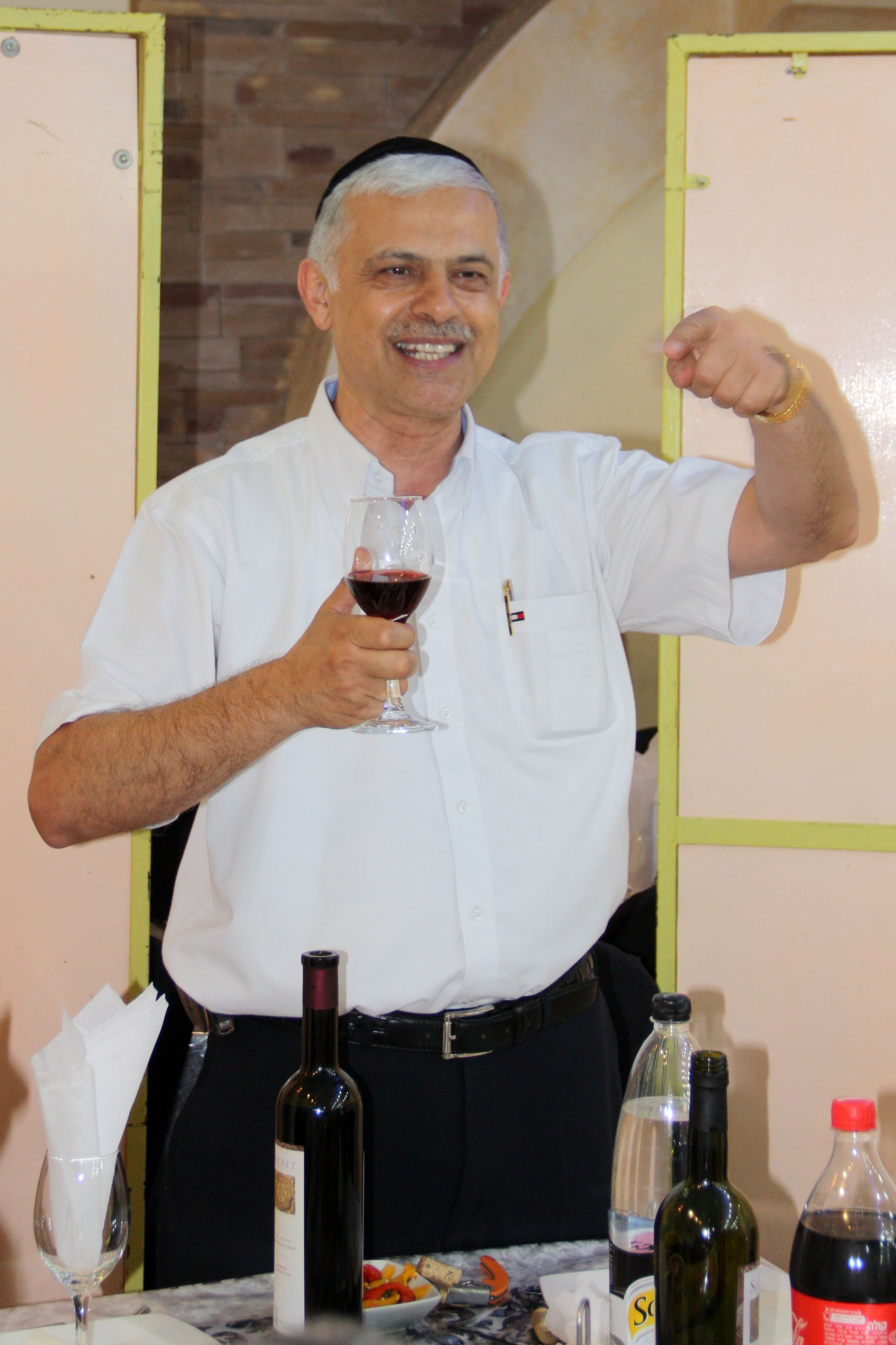 Amnon Cohen